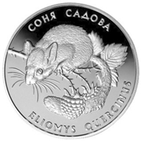 Coin of Ukraine